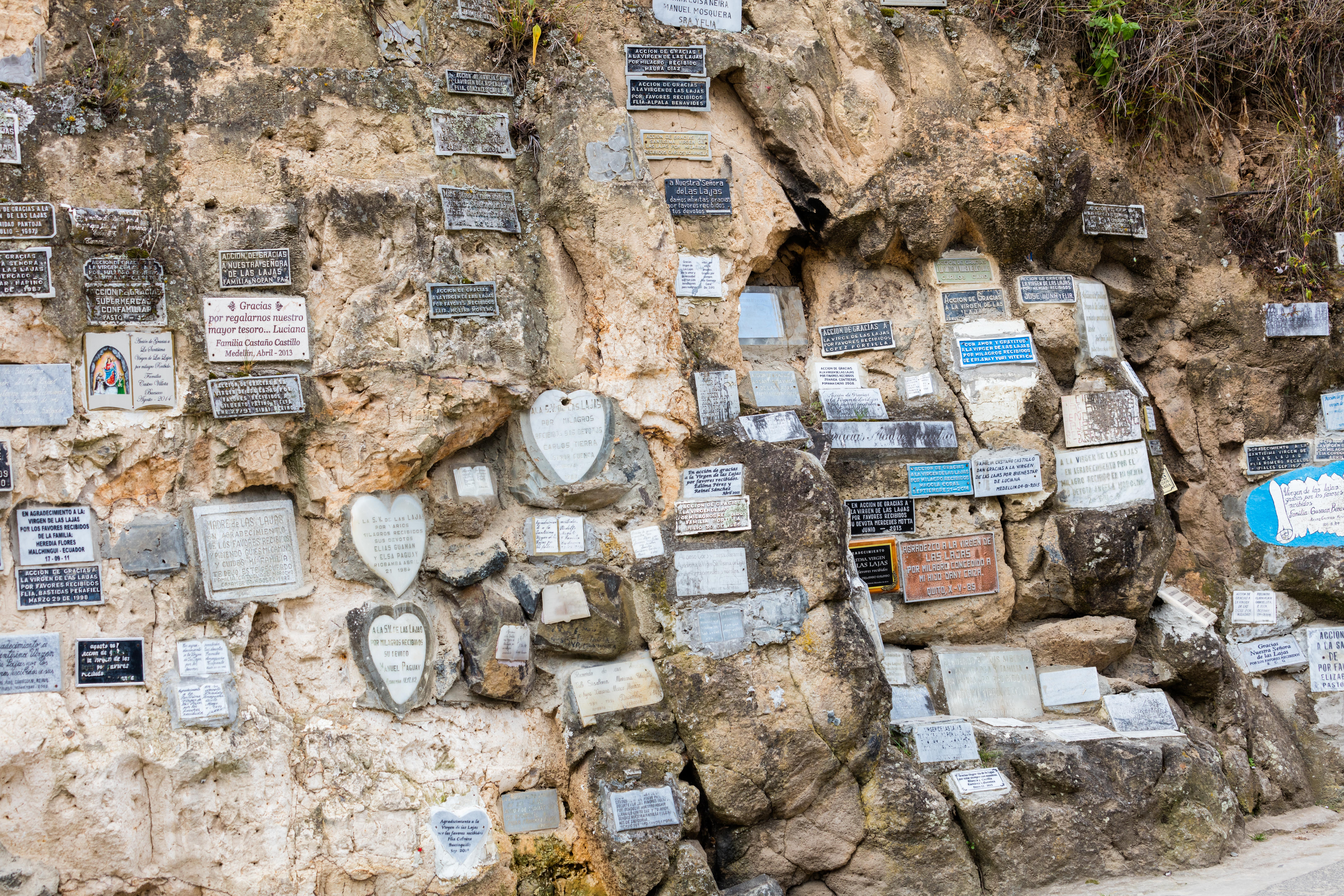 Sanctuary of Las Lajas, Ipiales, Colombia